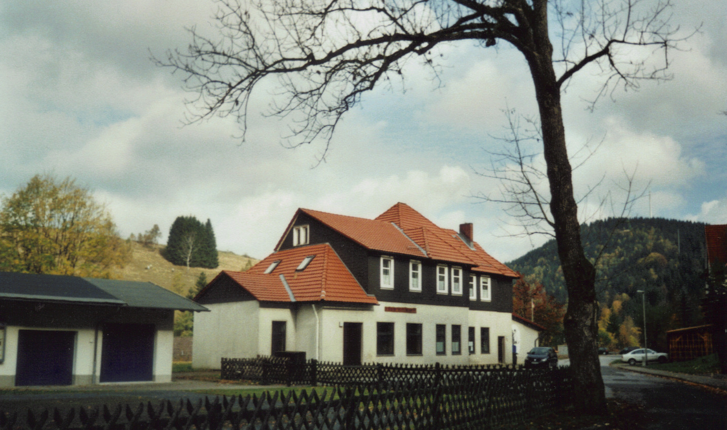 Former railway station, Wildemann, Harz Mountains, Lower Saxony, Germany